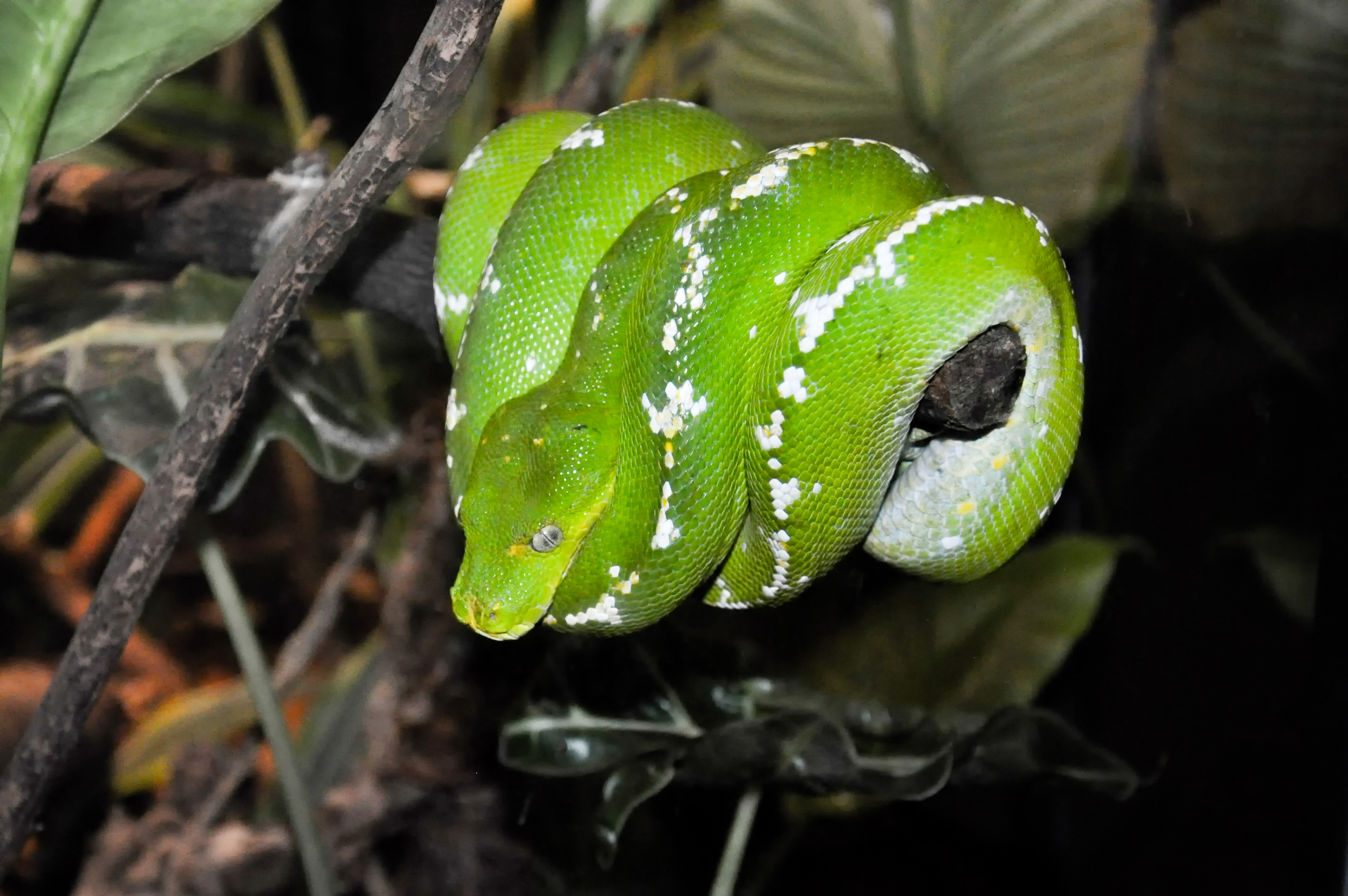 A fairly varigated green tree python at rest